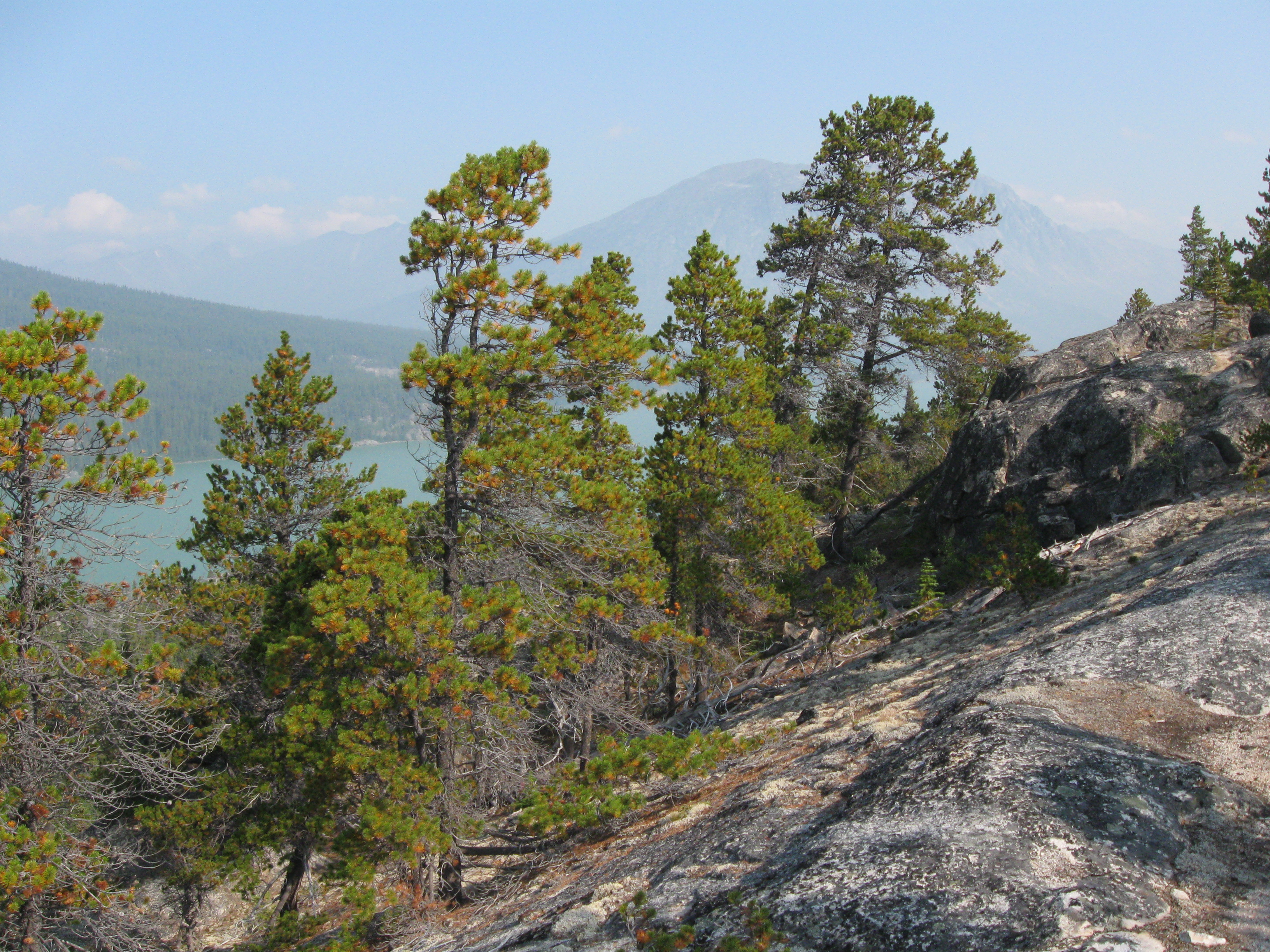 Pinus contorta subsp. latifolia, Chilkoot Trail, British Columbia, Canada (near northern limit of species' range).